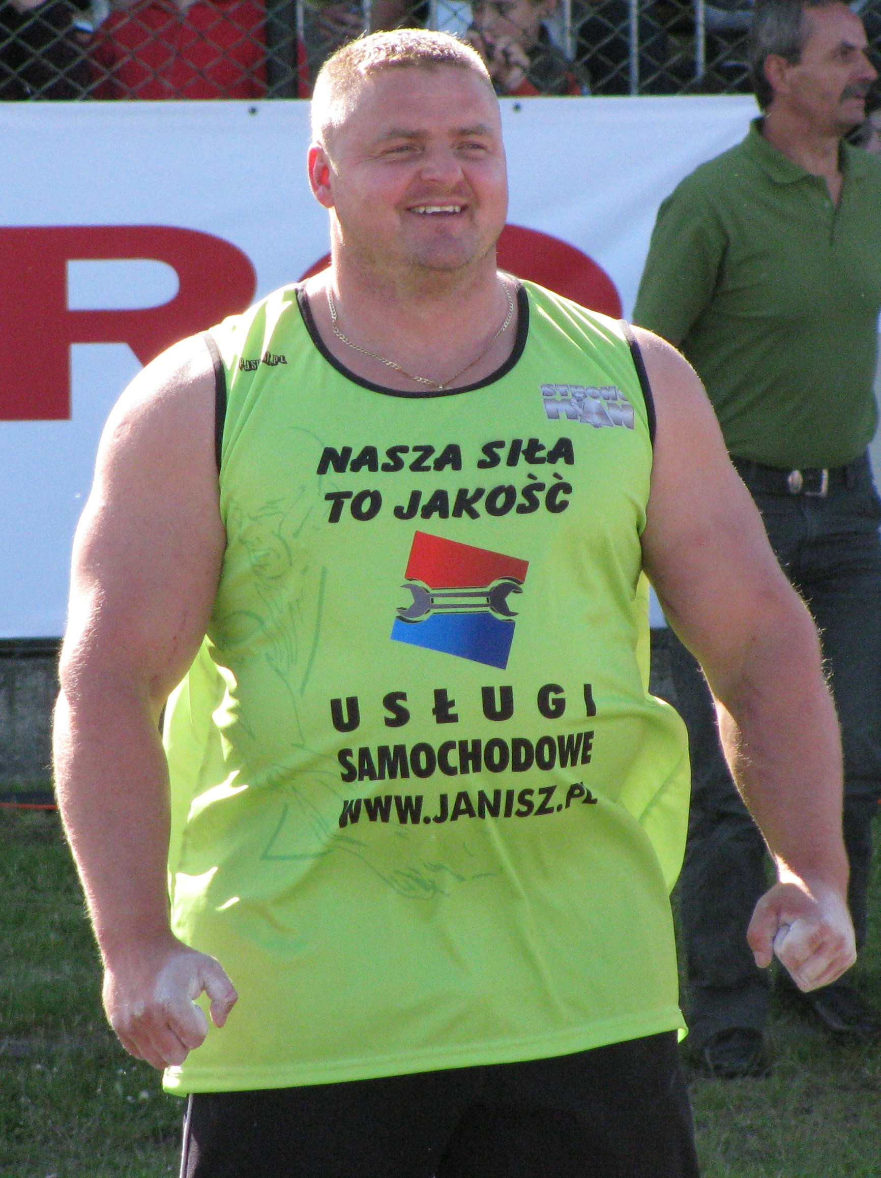 Slawomir Toczek - a strength athlete from Poland